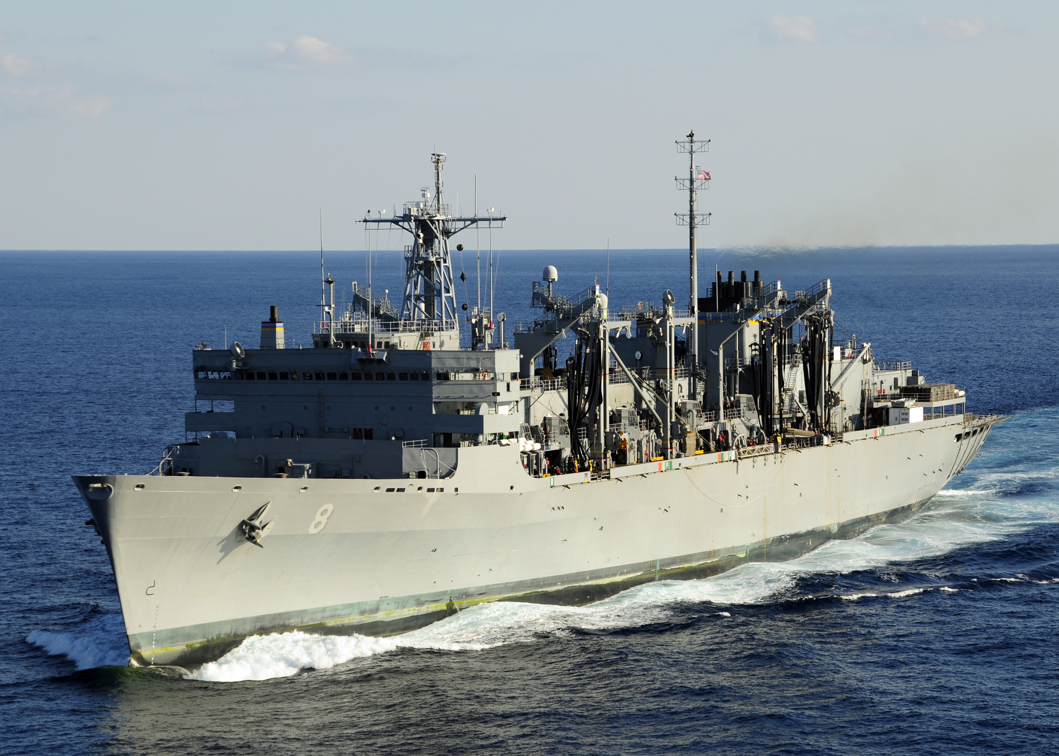 ATLANTIC OCEAN (Oct. 10, 2010) The Military Sealift Command fast combat support ship USNS Arctic (T-AOE 8) breaks away from the aircraft carrier USS George H.W. Bush (CVN 77) after a refueling at sea. George H.W. Bush is conducting training in the Atlantic Ocean. (U.S. Navy photo by Mass Communication Specialist Seaman Apprentice Leonard Adams/Released)